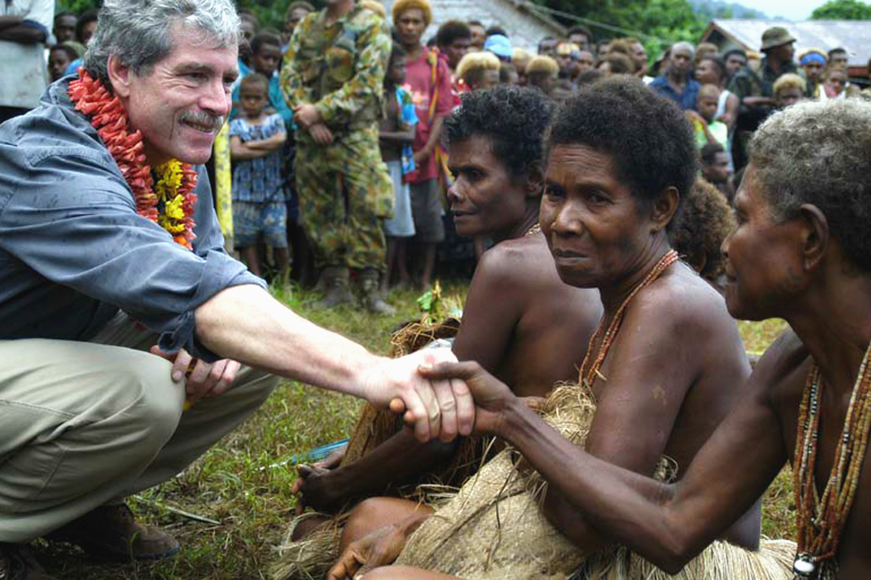 RAMSI Special Coordinator Nick Warner (July 2003 – August 2004) responded warmly to the overwhelming welcome RAMSI was given almost universally by Solomon Islanders. Here he greets some Solomon Islands women during one of his many provincial tours. Photo: Brian Hartigan/Australian Federal Police